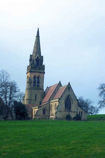 St Mary's parish church, Dunstall, Staffordshire, seen from the east